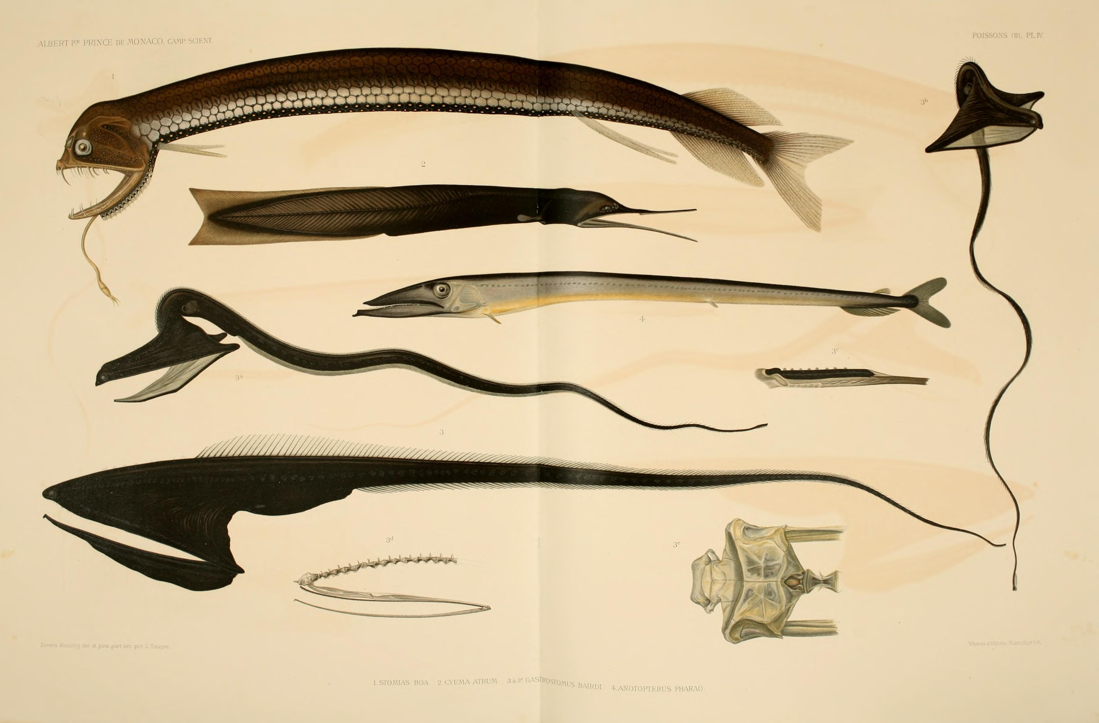 Fig. 1. Stomias boa = Stomias boa boa (Risso, 1810) Fig. 2. Cyeama atrum = Cyema atrum Günther, 1878 Fig. 3. Gastrostomus bairdi = Eurypharynx pelecanoides Vaillant, 1882 (adult) Fig. 3a. Gastrostomus bairdi = Eurypharynx pelecanoides Vaillant, 1882 (juvenile) Fig. 3b. Gastrostomus bairdi = Eurypharynx pelecanoides Vaillant, 1882 (juvenile, in vertical position) Fig. 3c. Gastrostomus bairdi = Eurypharynx pelecanoides Vaillant, 1882 (caudal organ) Fig. 3d and 3e. Gastrostomus bairdi = Eurypharynx pelecanoides Vaillant, 1882 (cranium) Fig. 4. Anotopterus pharao = Anotopterus pharao Zugmayer, 1911